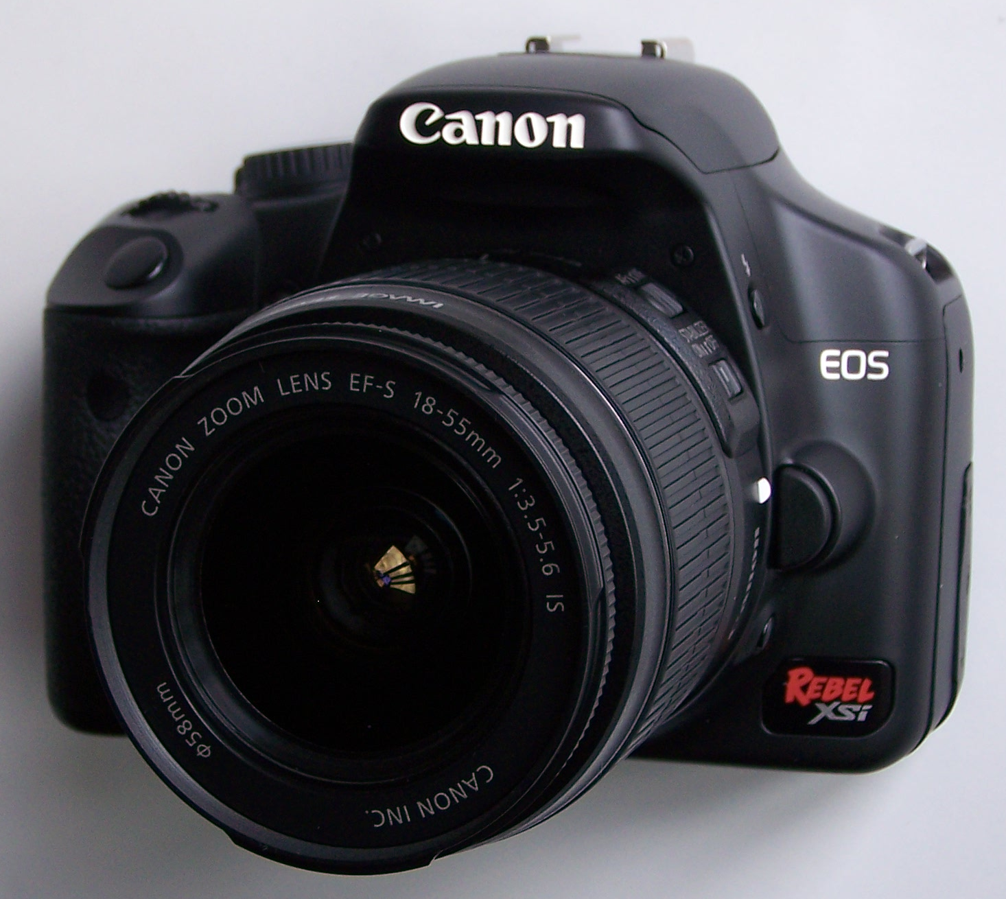 Filename